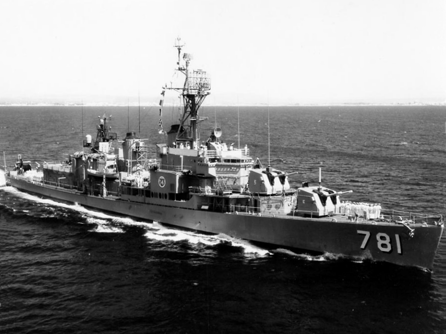 The U.S. Navy destroyer USS Robert K. Huntington (DD-781) underway at sea during the 1960s, while serving with Destroyer Squadron 14.